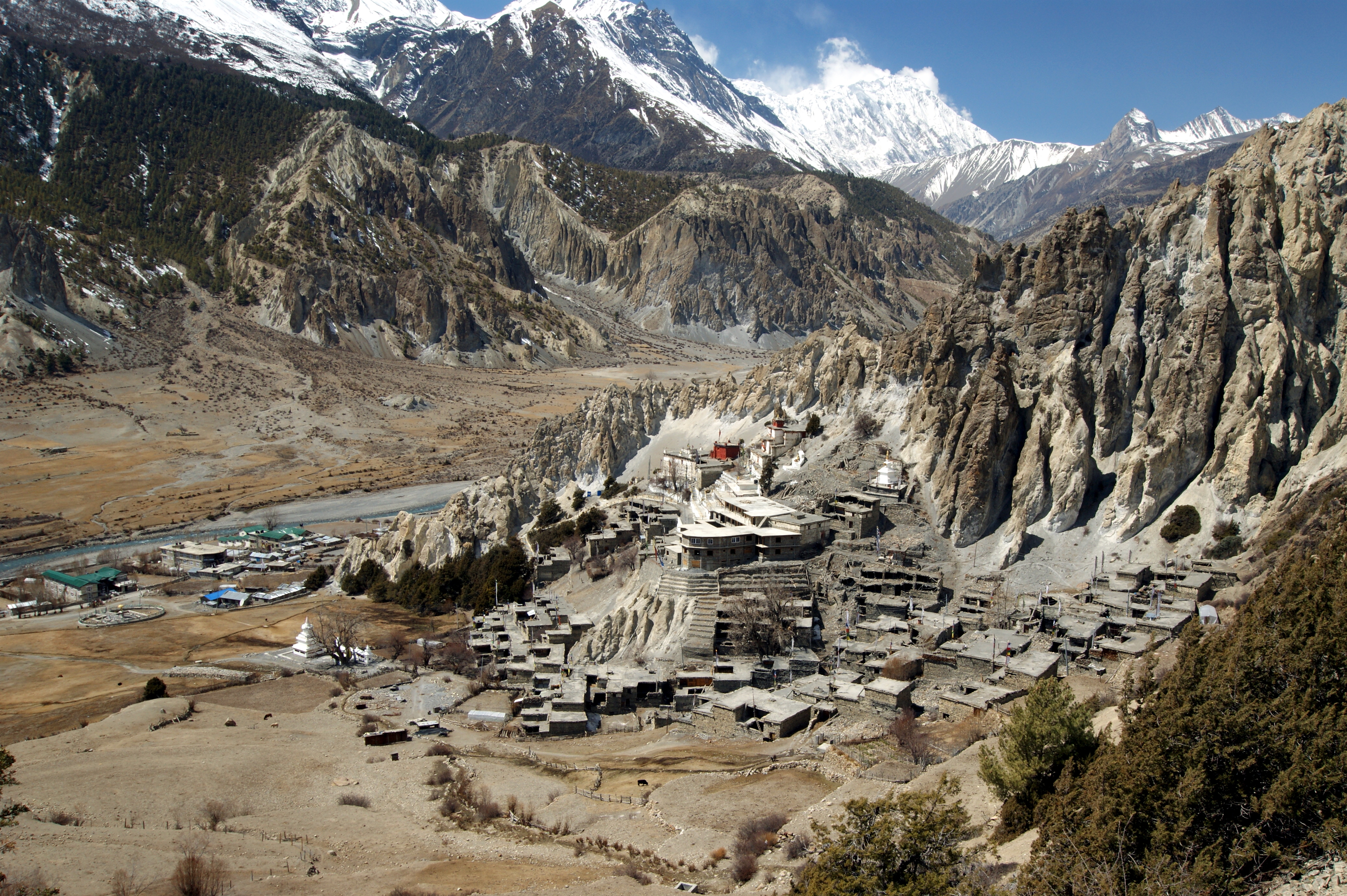 Village of Braka/Braga as seen from the north east